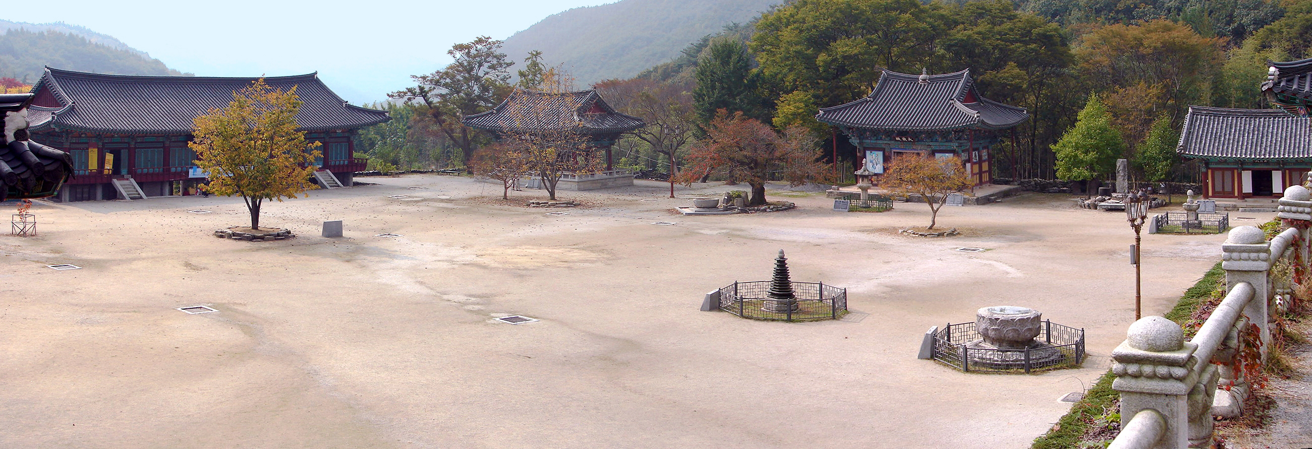 Geumsansa Temple Grounds - Geumsansa is a head temple of the Jogye Order of Korean Buddhism. It stands on the slopes of Moaksan in Gimje, Jeollabuk-do, South Korea. The temple was constructed in 599. Several national treasures of South Korea are located on the temple grounds.